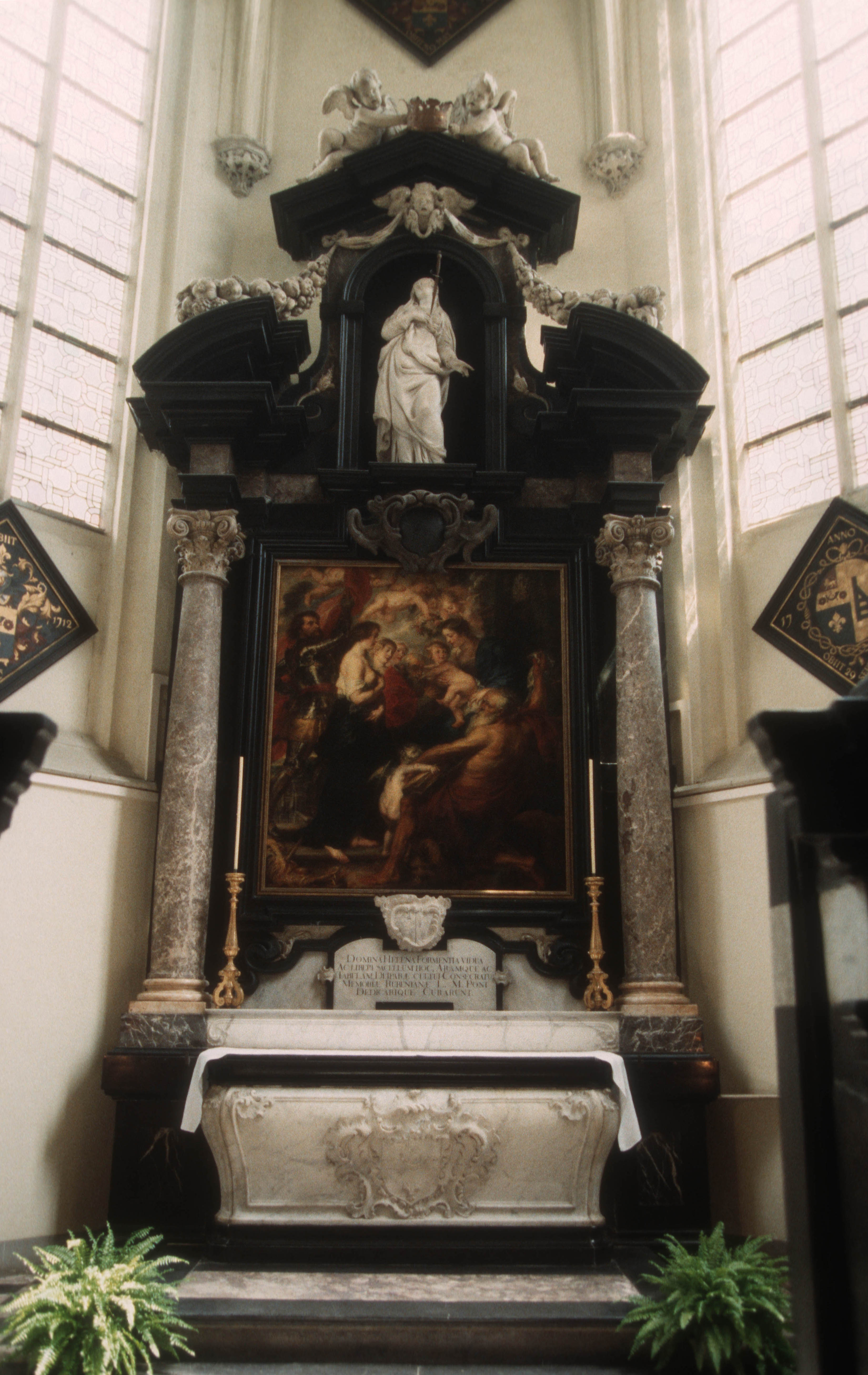 RUBENS' GRAVE IN ST. JAMES CHURCH; THE PAINTING OVER HIS SARCOPHAGUS WAS HIS LAST PAINTING